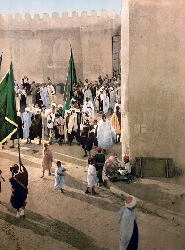 Photograph of a procession in Kairouan, Tunisia. This color photochrome print was taken in 1899 in Kairouan, Tunisia.